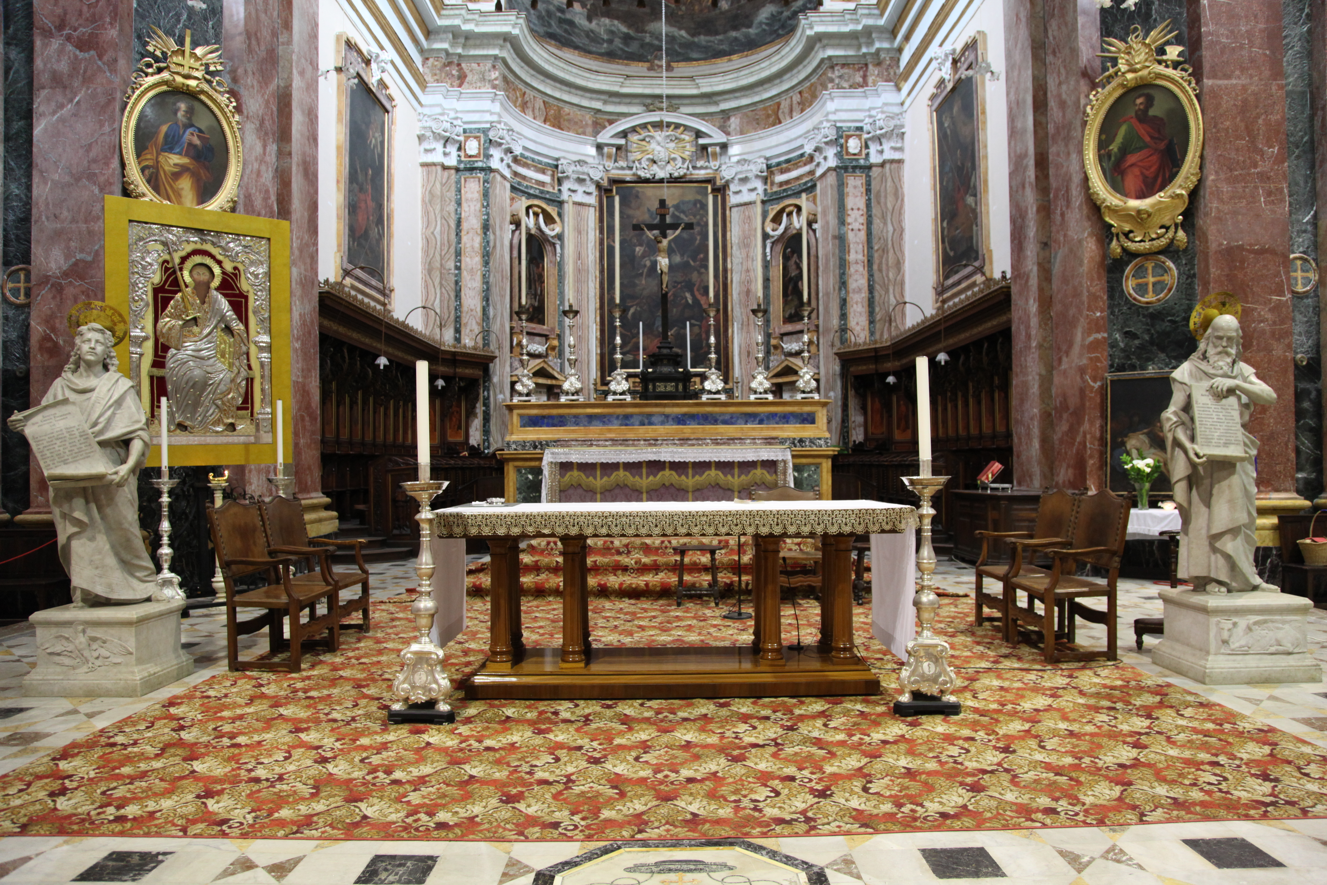 St. Paul's Cathedral, Pjazza San Pawl in Mdina, Malta